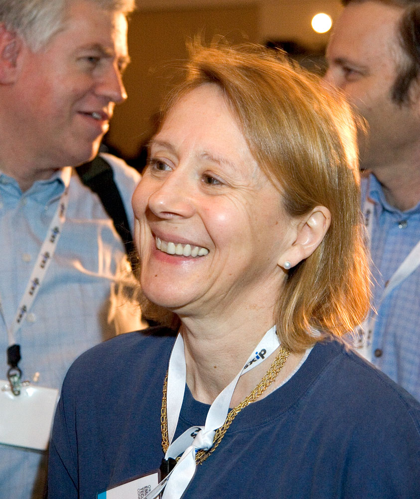 Release 1.0's Esther Dyson. This photograph was taken during the O'Reilly Emerging Technology Conference in San Diego, California at the Westin Horton Plaza Hotel.